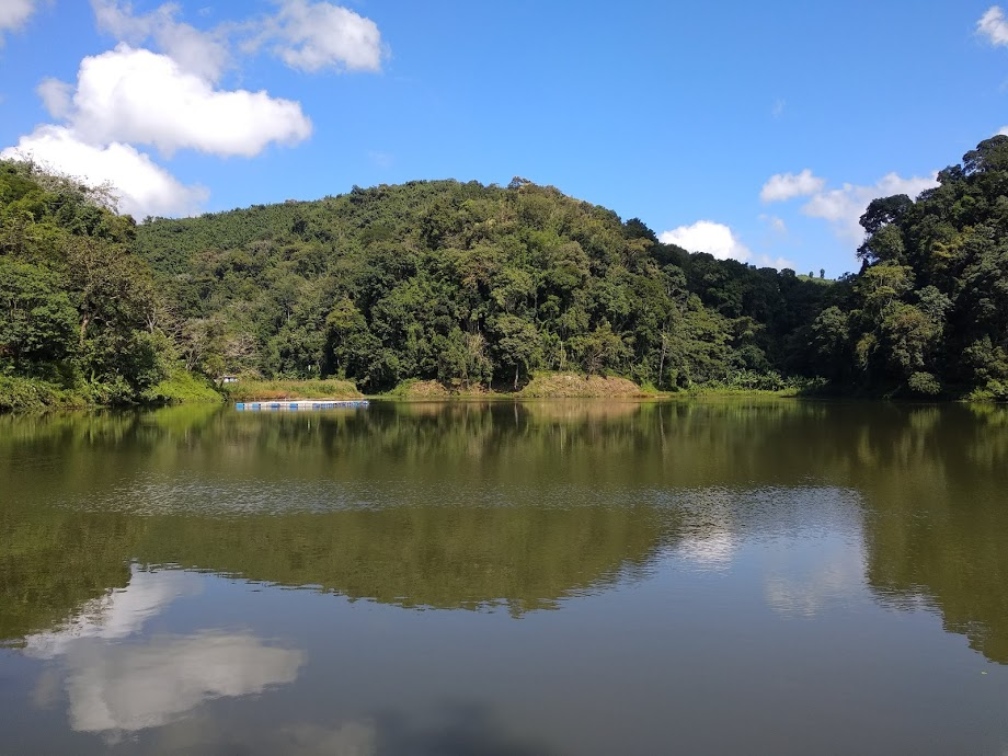 Tam Dil near Saitual